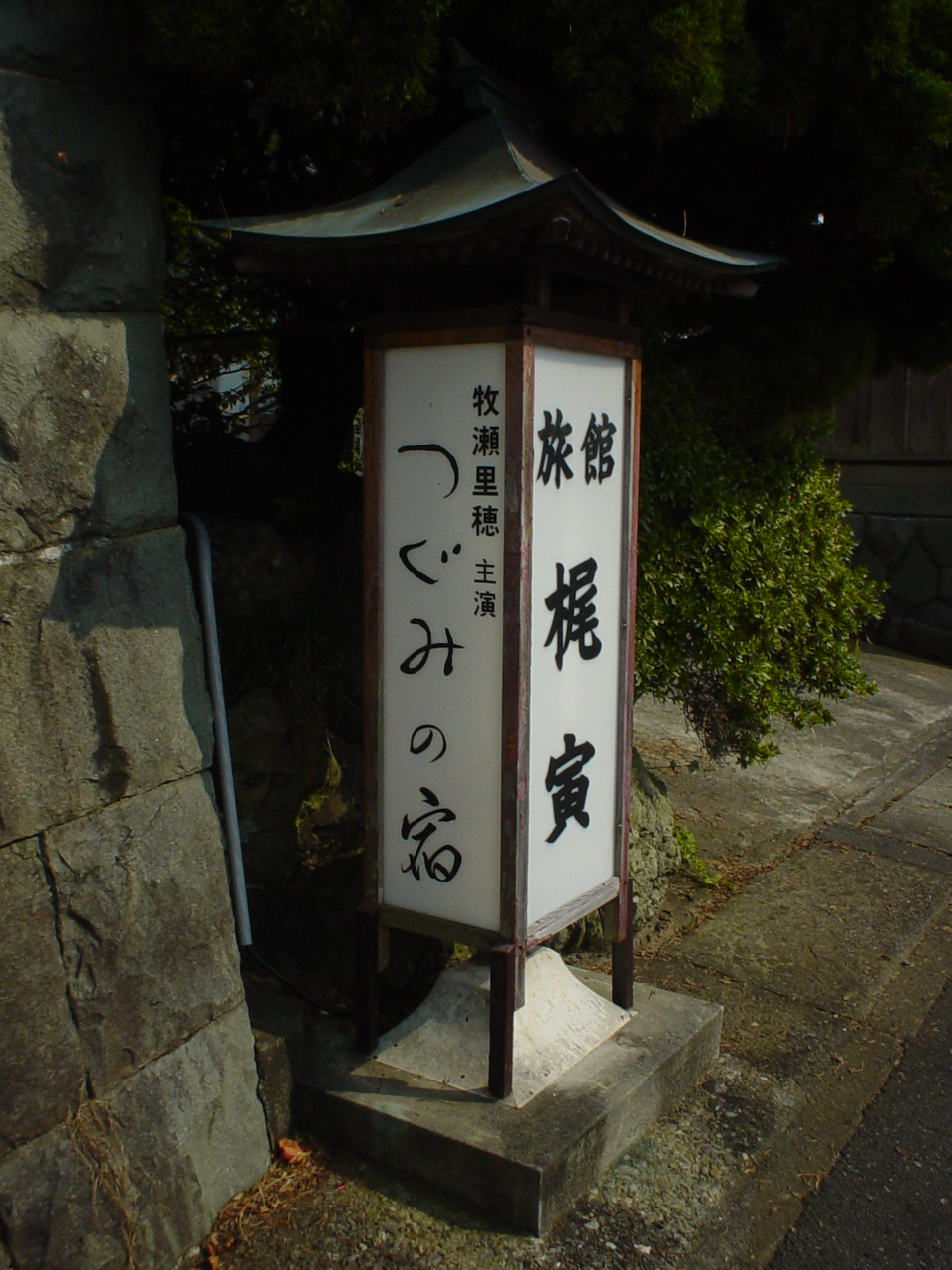 Photo by me.